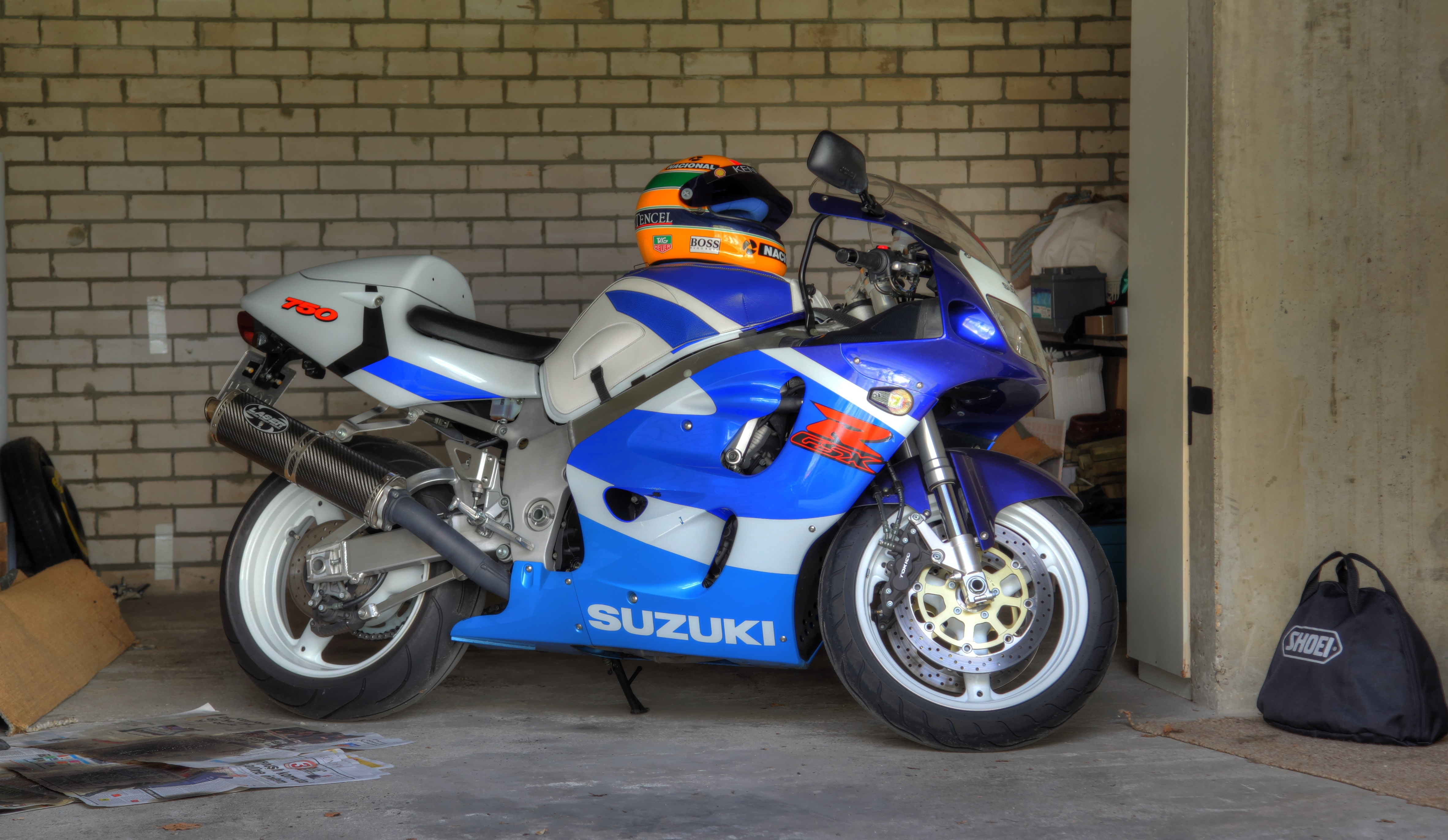 Suzuki GSXR 750 SRAD 1999